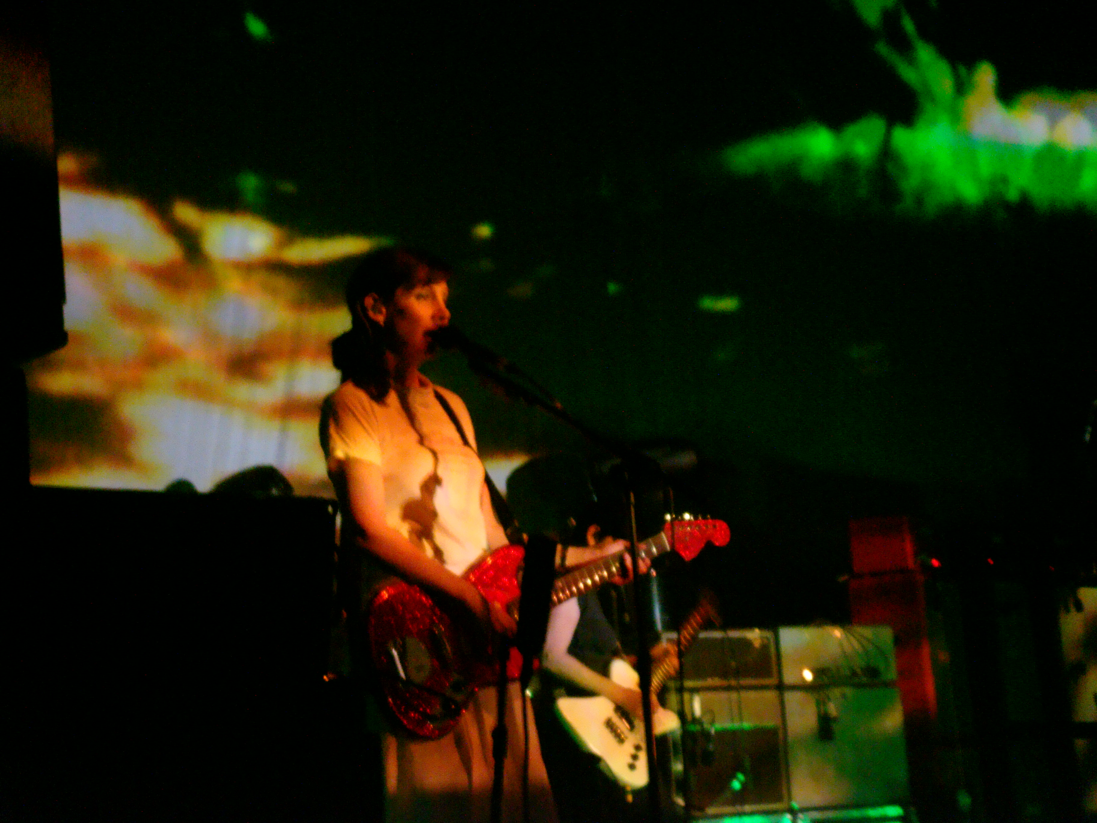 Bilinda Butcher performing live with at the Roundhouse in 2008. Debbie Googe in the background.